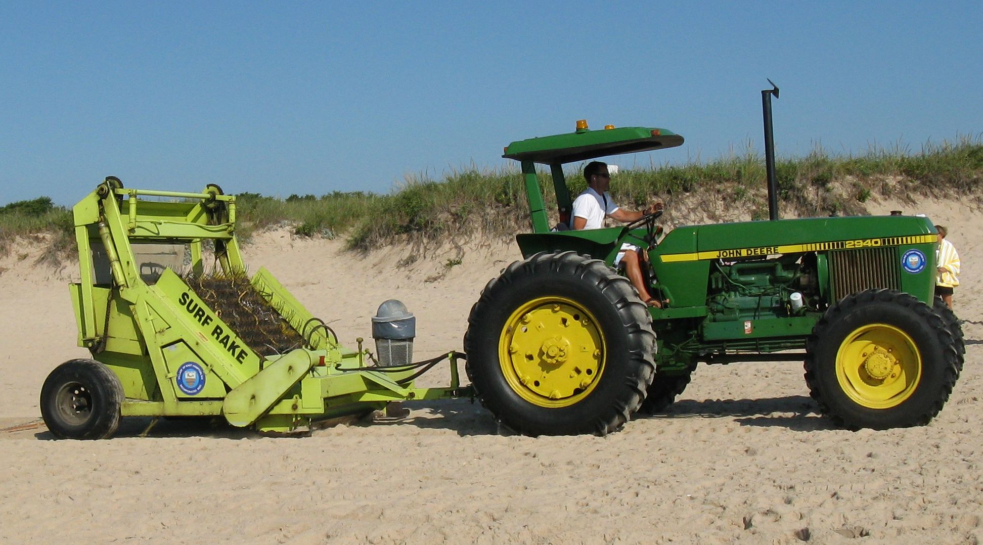 A John Deere 2940 tractor with a Barber Surf rake in East Hampton, Connecticut, USA